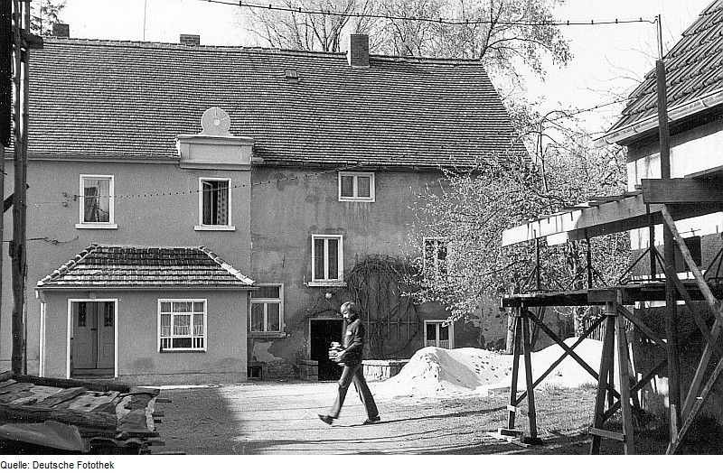 Original image description from the Deutsche Fotothek Ralbitz-Rosenthal-Laske. Wassermühle, Hofansicht